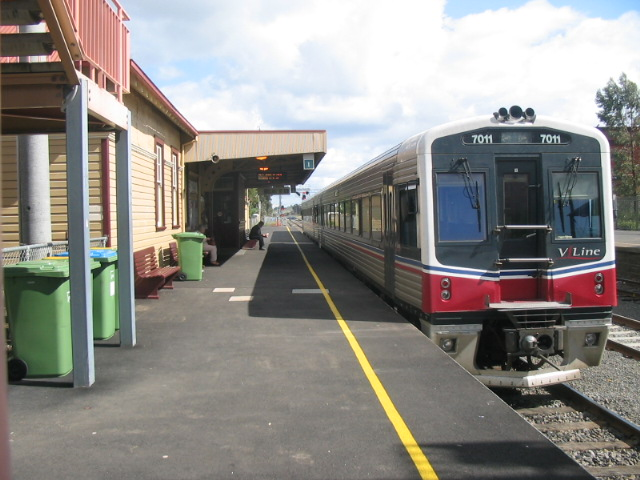 Sprinter 7011 at Sunbury Platform 1.